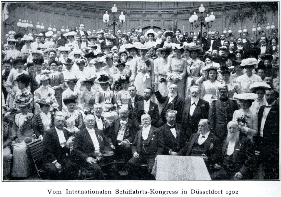 PIANC Congress in Dusseldorf 1902